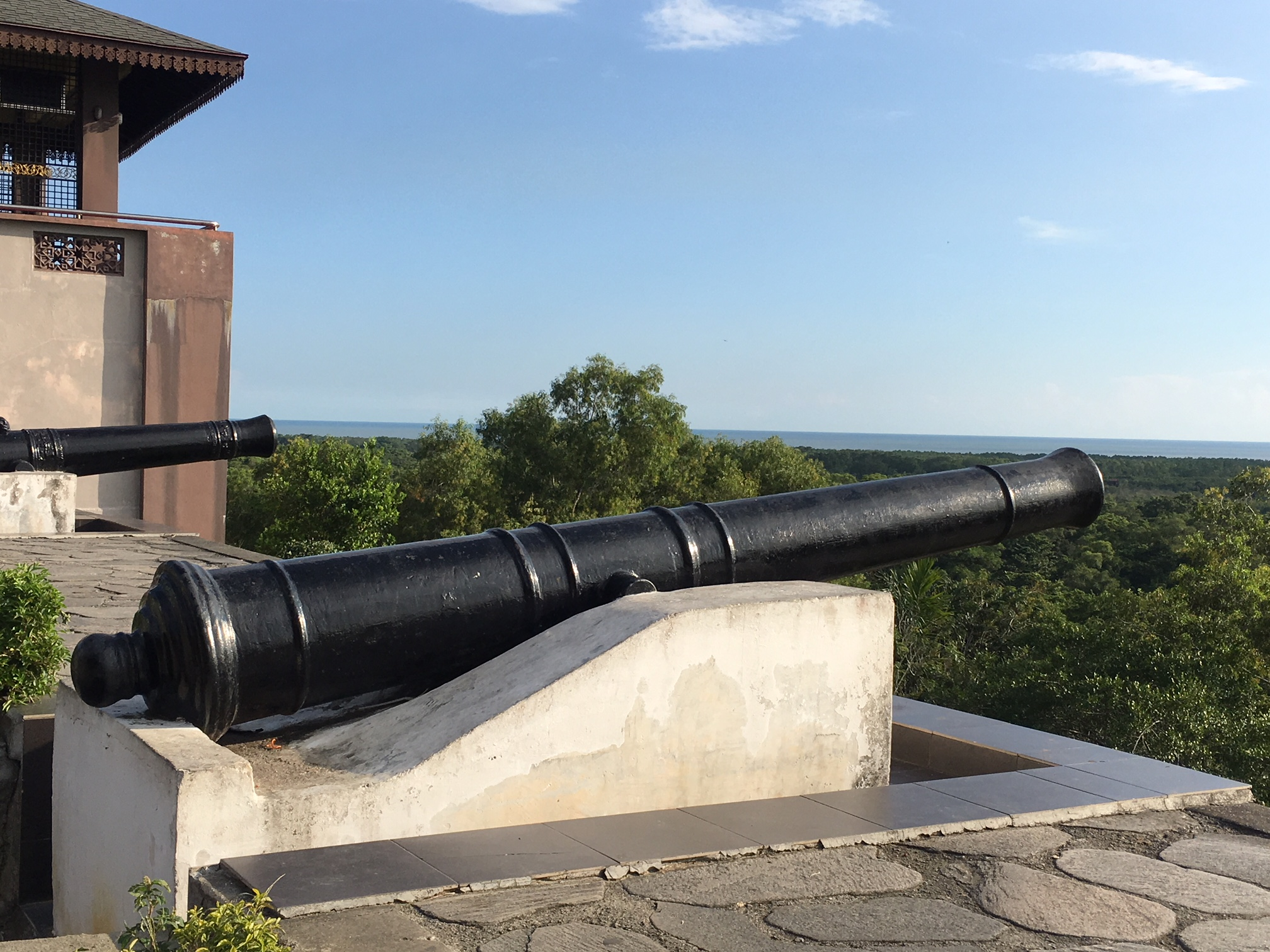 Cannons at Bukit Melawati overlooking the Strait of Malacca in Kuala Selangor, Malaysia